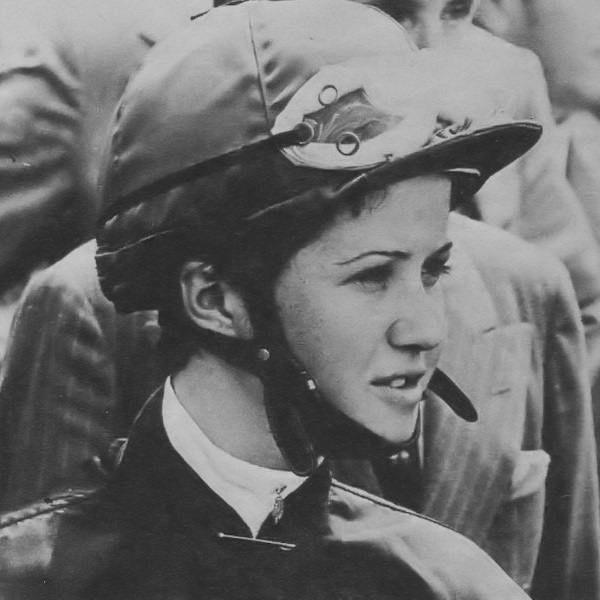 Argentinian jockey Marina Lezcano in 1974